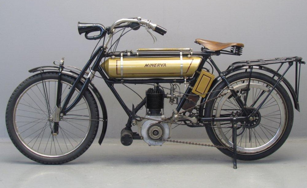 Minerva 432 cc motorcycle from 1908